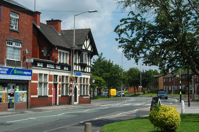 The Royal Oak at the corner of Causeway Green Rd & Langley Green Road